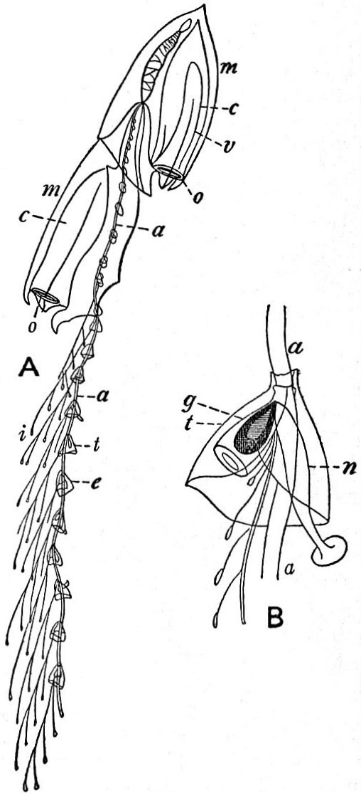 A, Diphyes campanulata; B, a group of appendages (cormidium) of the same Diphyes (see legend below).